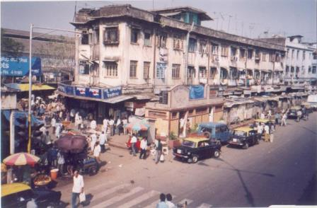 Landmark "Haji Ismail Gani Building" one of the longest buildings and an Original Bombay chawl at Byculla station(East). An inspiration for Mumbai's infamous "TAPORI DIALECT".(2002)